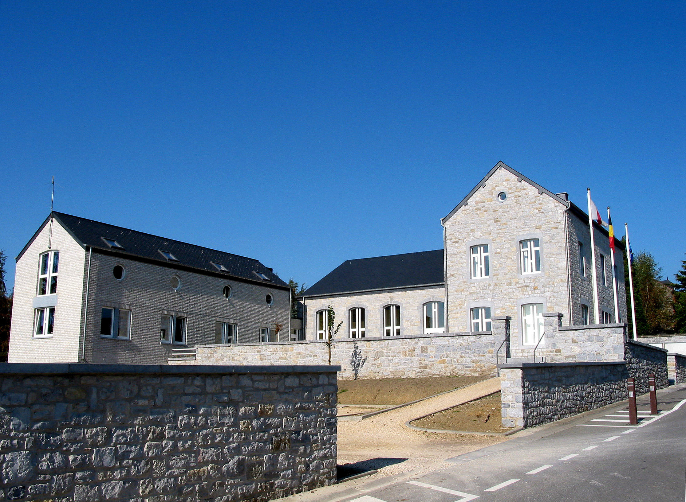 Onhaye (Belgium), the new buildings of the town hall built in the previous elementary school.